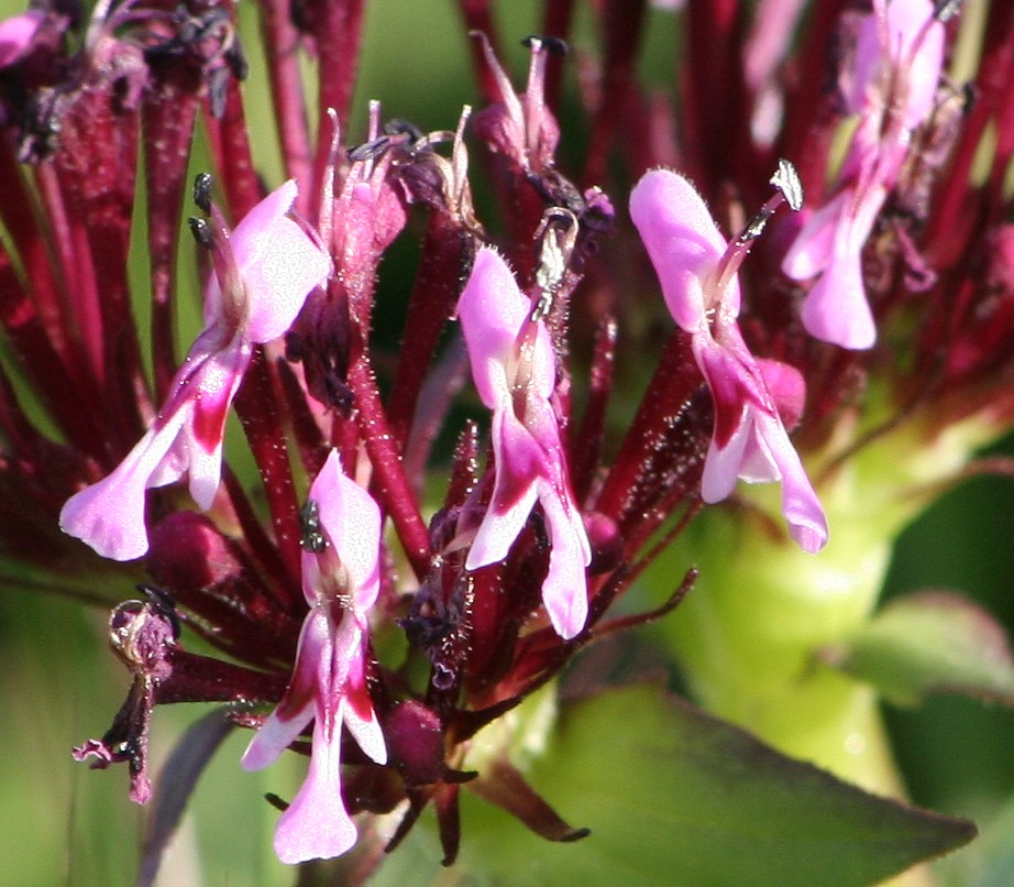 Fedia cornucopiae detail